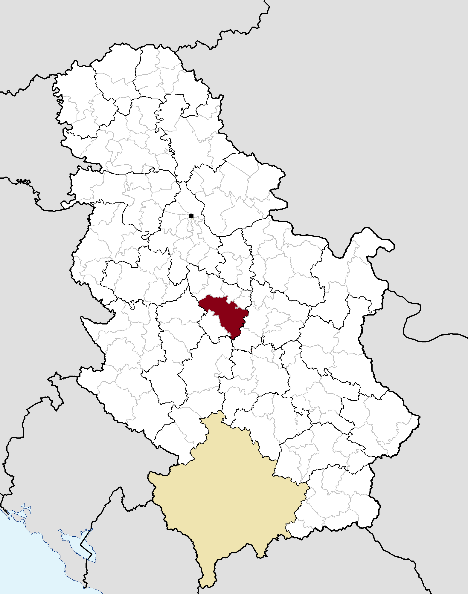 Municipal location in Serbia